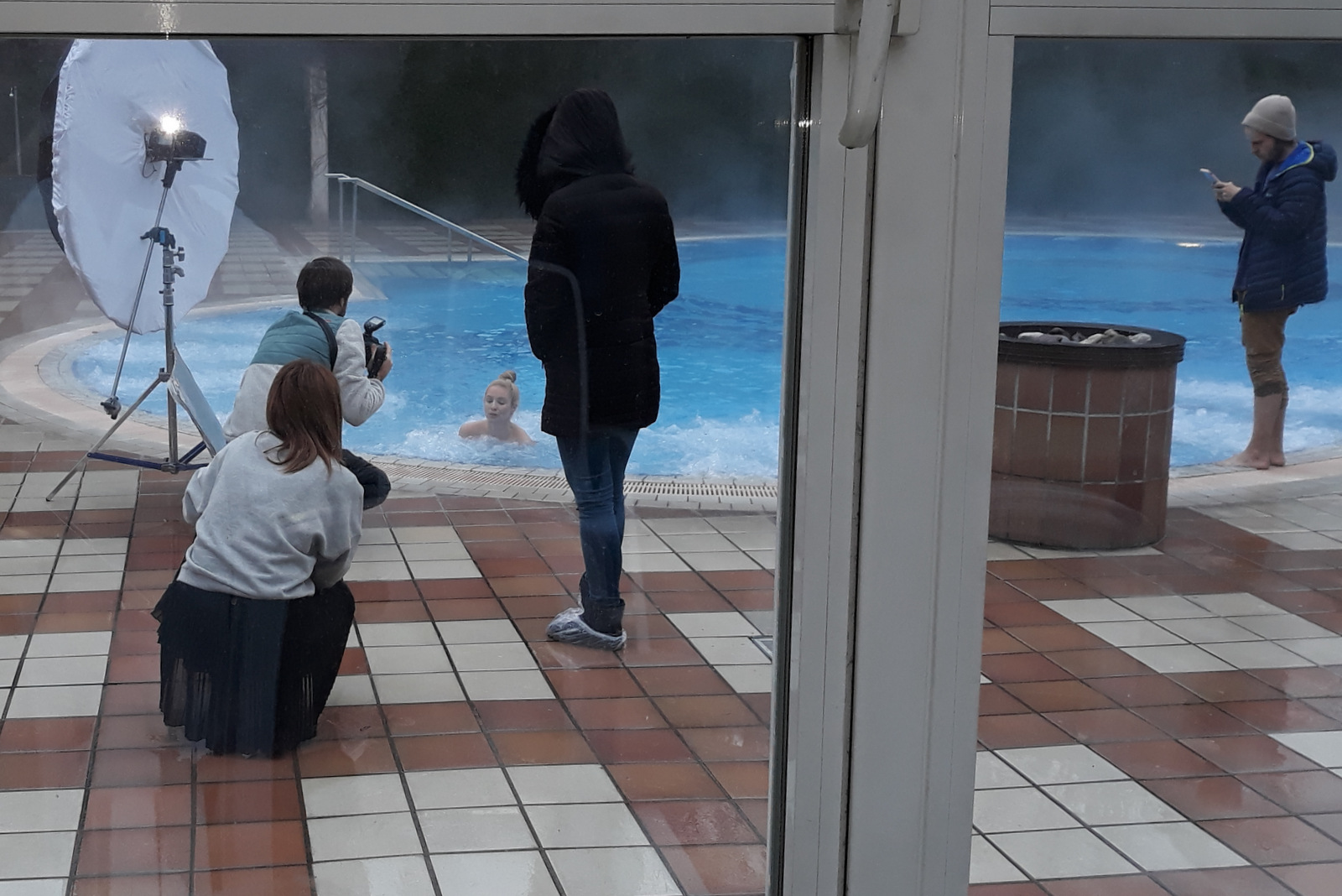 Iva Krajnc med snemanjem